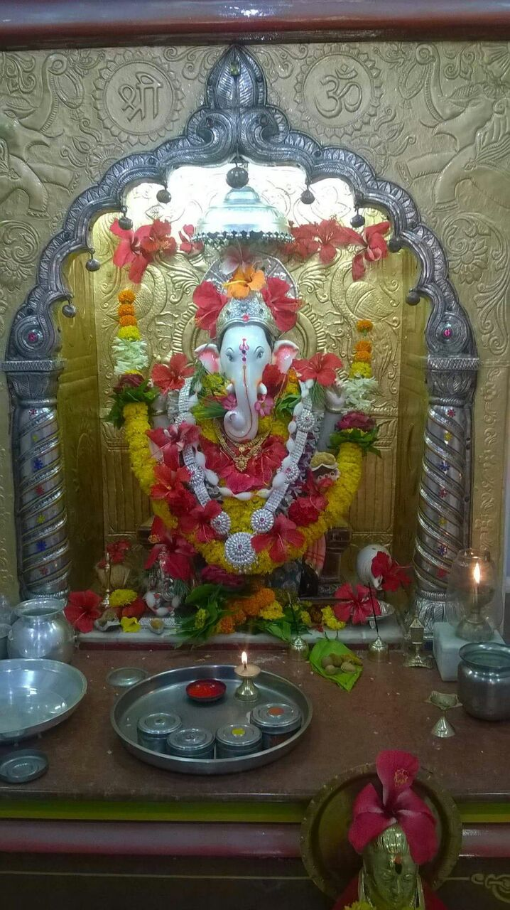 Lord Ganesha